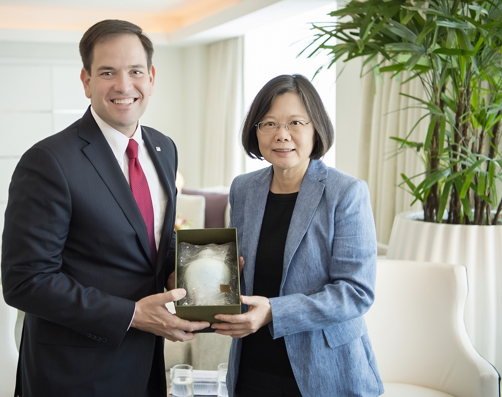 臺灣總統蔡英文接見美國聯邦參議員魯比歐 Marco Rubio